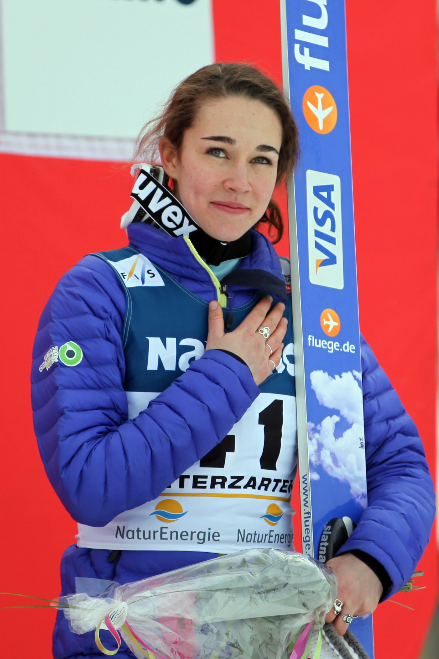 Sarah HENDRICKSON with the gold medal at the Ladies Ski Jumping World Cup event in Hinterzarten, 2013.